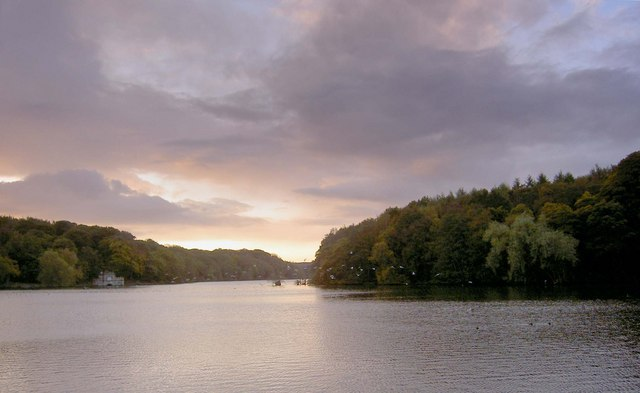 Newmillerdam Sun breaking through after early morning rain.